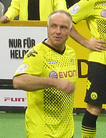 Germany, Bonn, Telekom-Dome: Michael Rummenigge (former german Bundesliga professional soccer player) during a tournament as player of the BVB-traditional team.